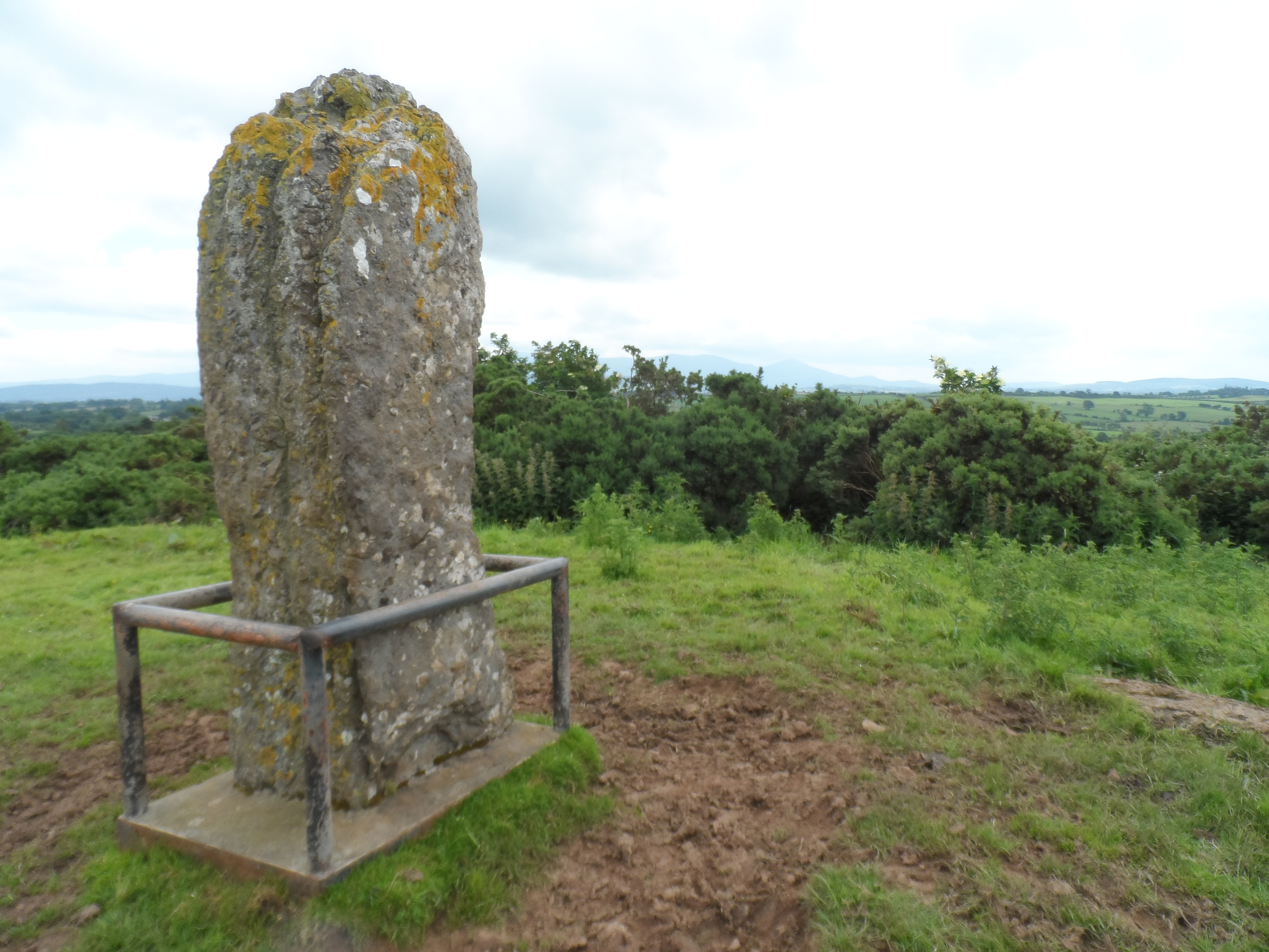 Longstone, Cullen standing stone